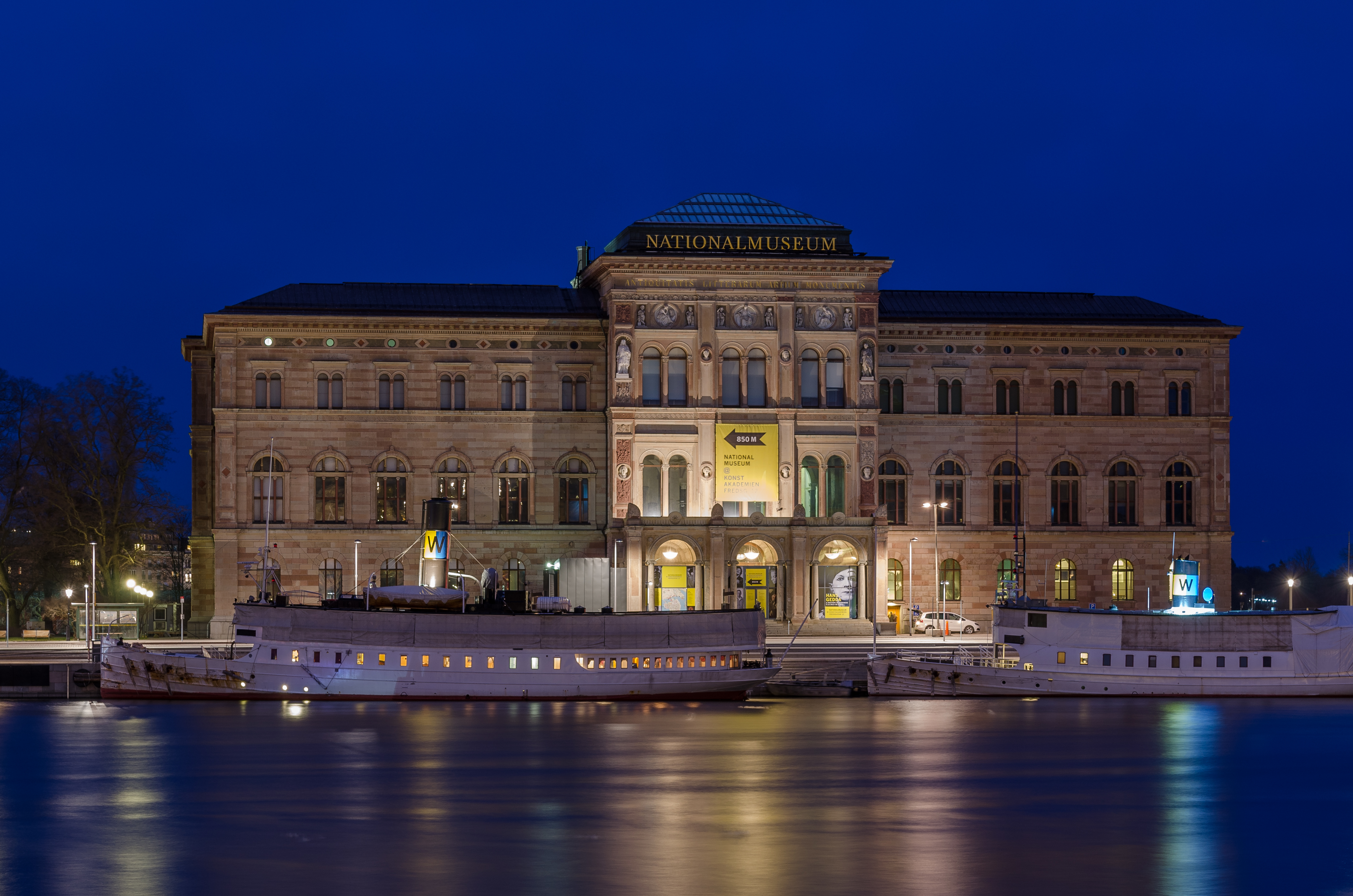 Nationalmuseum, Stockholm.